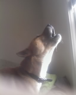 NGSD in song